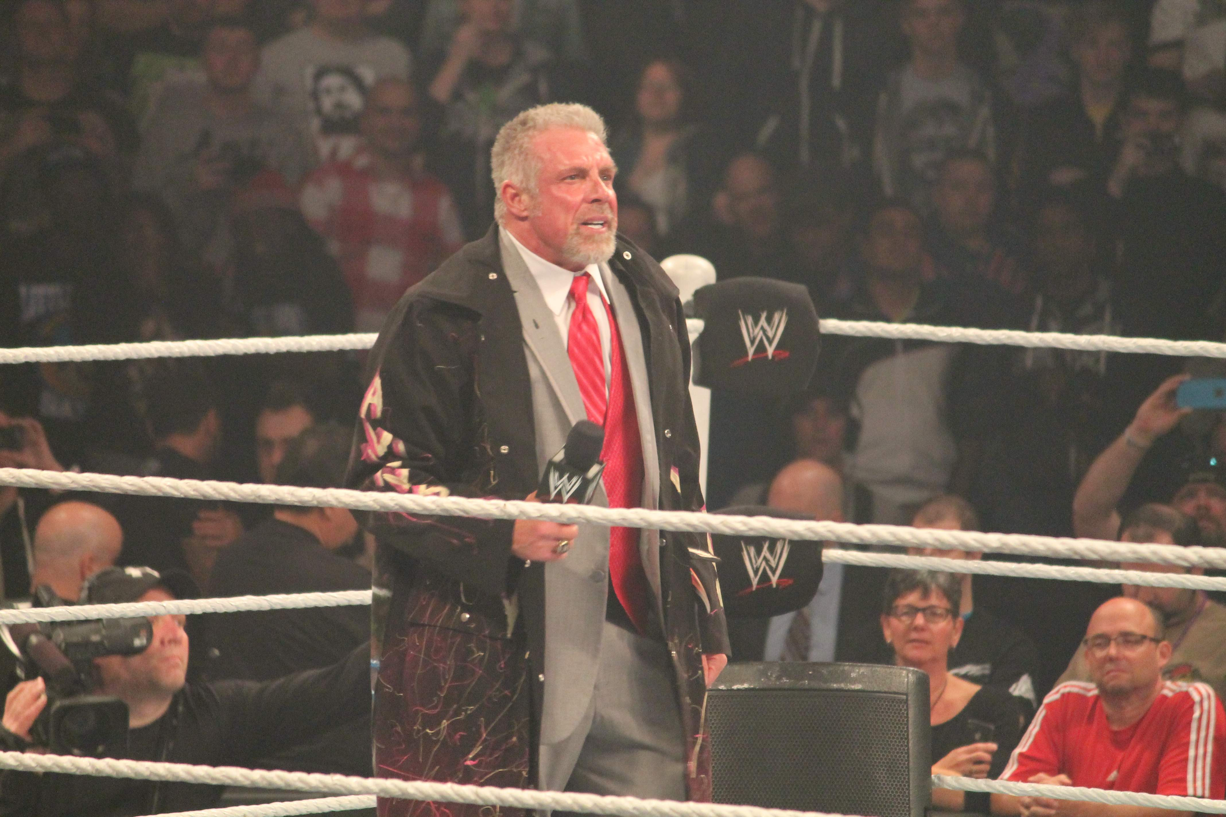 The Ultimate Warrior in his last appearance on RAW